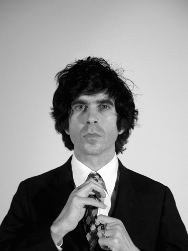 Ian Svenonius